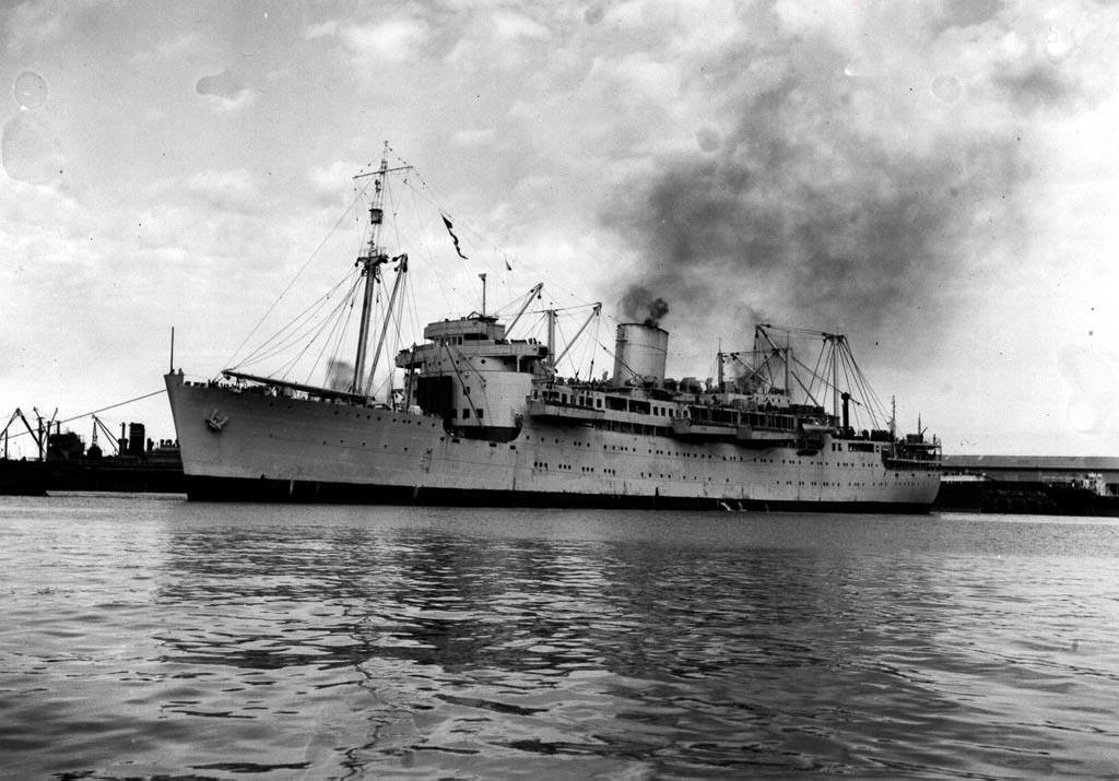 HMAS Kanimbla arriving in Fremantle harbour c1945.